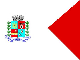 Flags of the city of Chácara, Minas Gerais, Brazil.